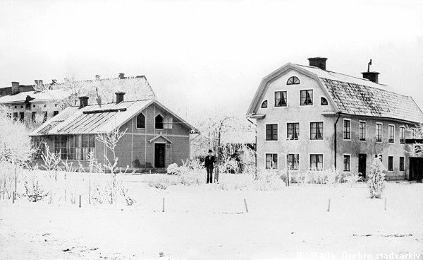 Bernhard Hakelier's photographic atelier in Örebro, Sweden